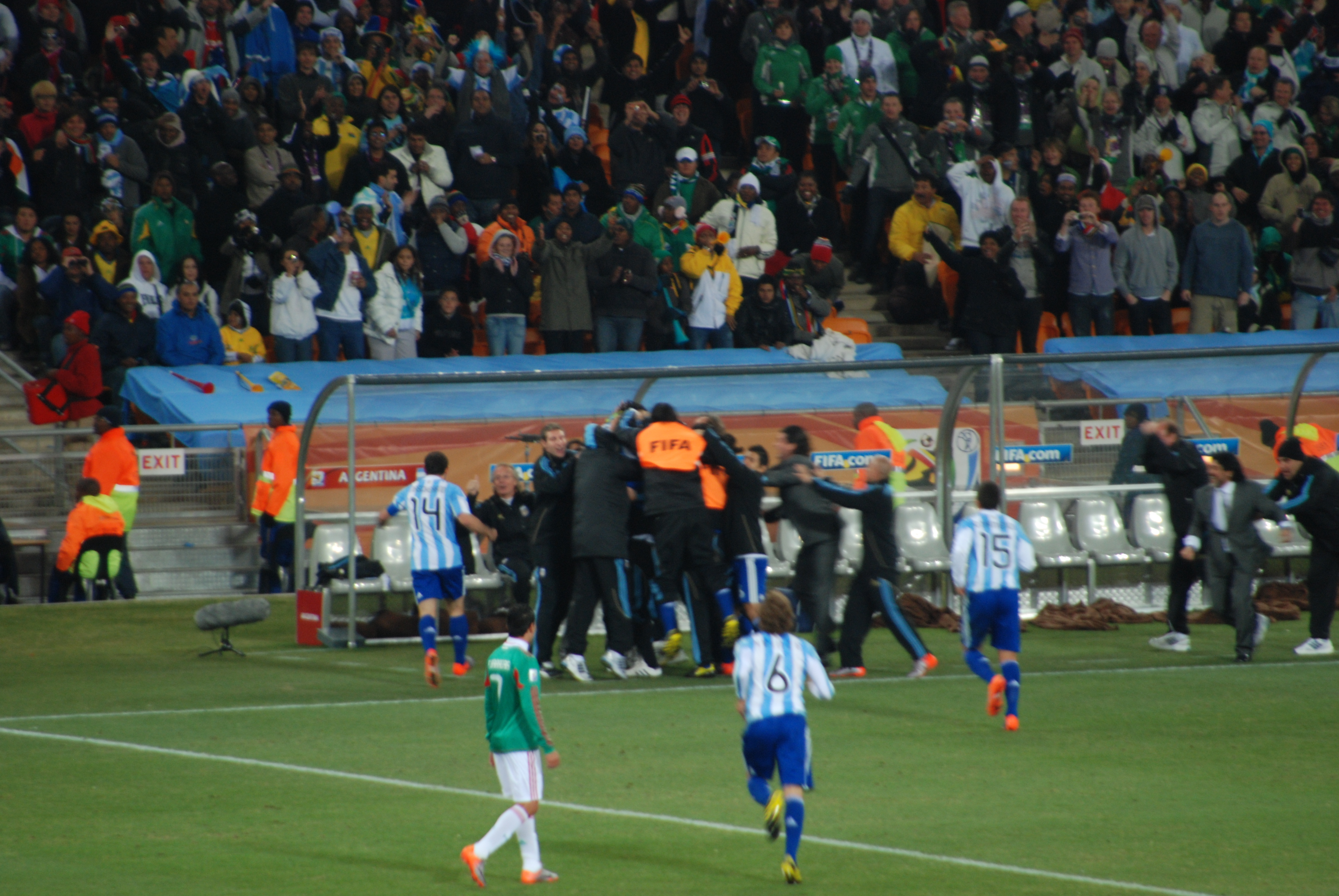 Argentina and Mexico match at the FIFA World Cup June 27th, 2010.